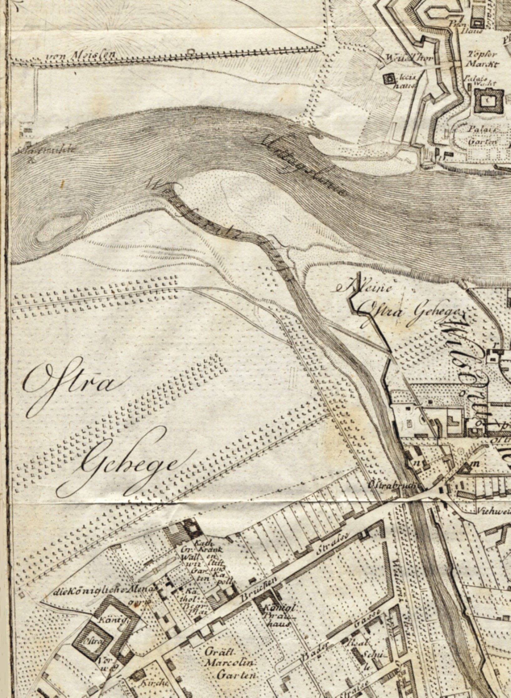 city map of Dresden (part of plan with Ostragehege), J. Georg Lehmann, delineated 1801, improved 1804, printed 1809